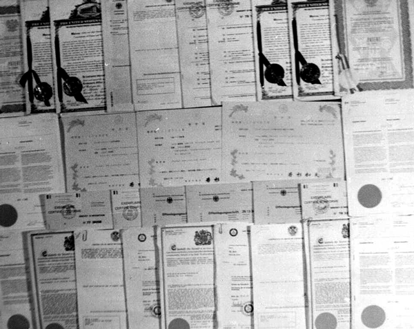 Stakhov's international patent certificates